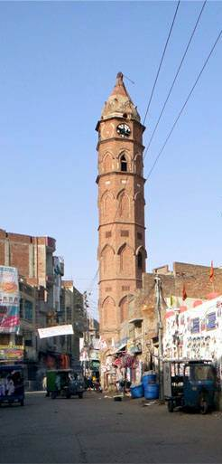 Clock Tower Gujranwala